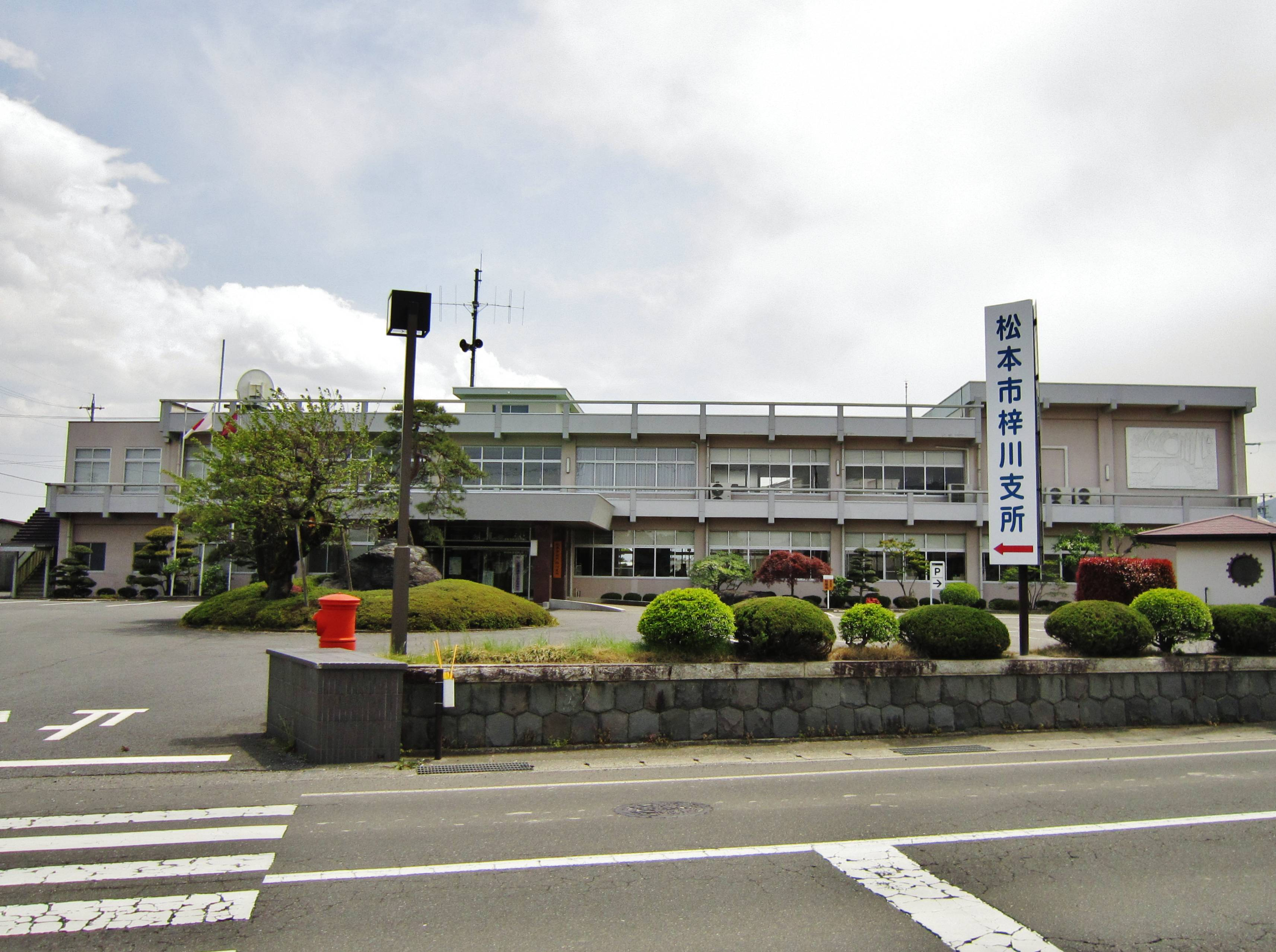 Matsumoto city Azusagawa branch office.